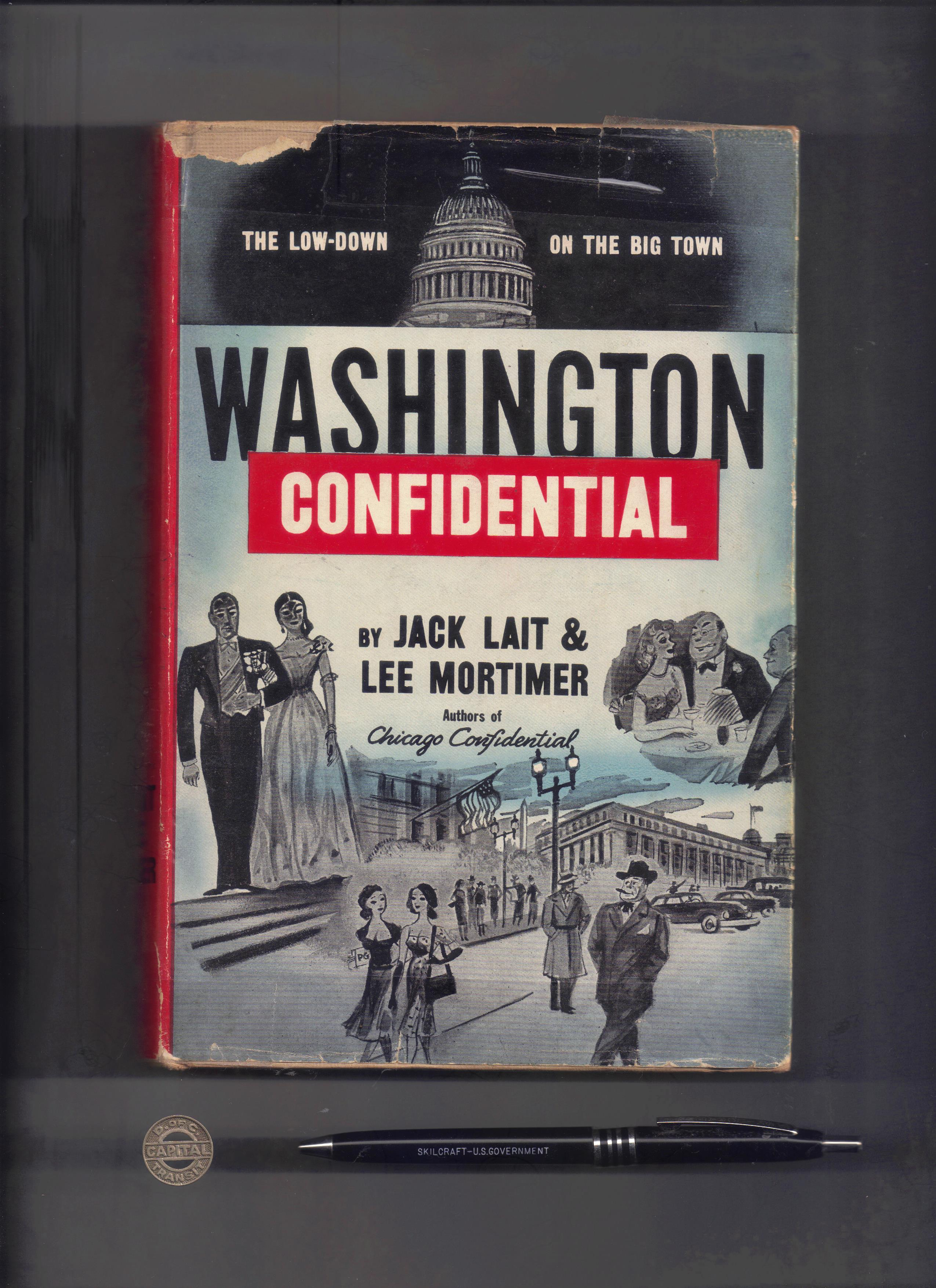 Take a ride through Washington, D.C. during the second Truman Administration - 1951 - fascinating reading. Investigative reporters Jack Lait and Lee Mortimer "do" Washington, D.C. In less than a year they get the "Low Down On The Big Town" and tell it in a quick paced matter of fact manner which keeps the pace moving through the avenues and alleys of the Capital. Included is a chapter on where Washingtonians went to play - Baltimore. Clark Clifford is mentioned and the reader gets an early indication of where he was headed long before the BCCI Scandal. Following up on "Confidential" books on Chicago and New York they leave one with the impression that the whole U.S.A. is what John Bunyan called "Vanity Fair" in his book Pilgrims Progress. If private gumshoe reporters Lait and Mortimer could do it obviously J. Edgar Hoover and Allen Dulles could get the low down on any U.S. city or world capital city. But what would their purpose be? Blackmail or subversion? Lait and Mortimer belong to a bygone era of the Fourth Estate. Bud Uanna probably knew the town better than Lait and Mortimer having lived there for over ten years. And he knew everyone in the behind the scenes "National Security State". By all indications, had he lived, he could be expected to make an end run around a Coup de Etat and foil it.